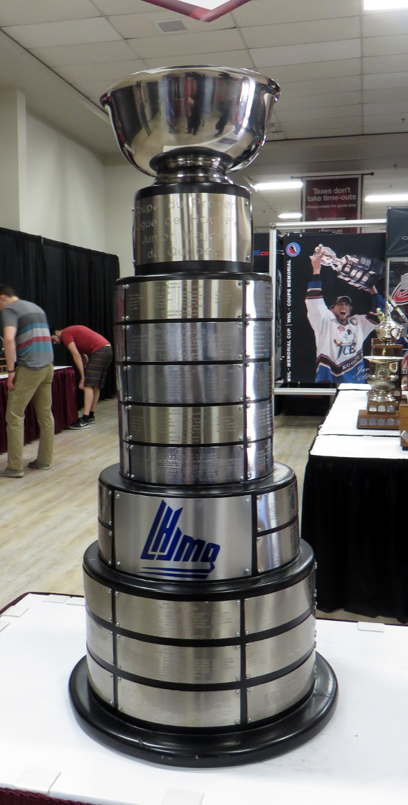 The President's Cup, championship trophy of the Quebec Major Junior Hockey League, on display at the 2016 Memorial Cup tournament.